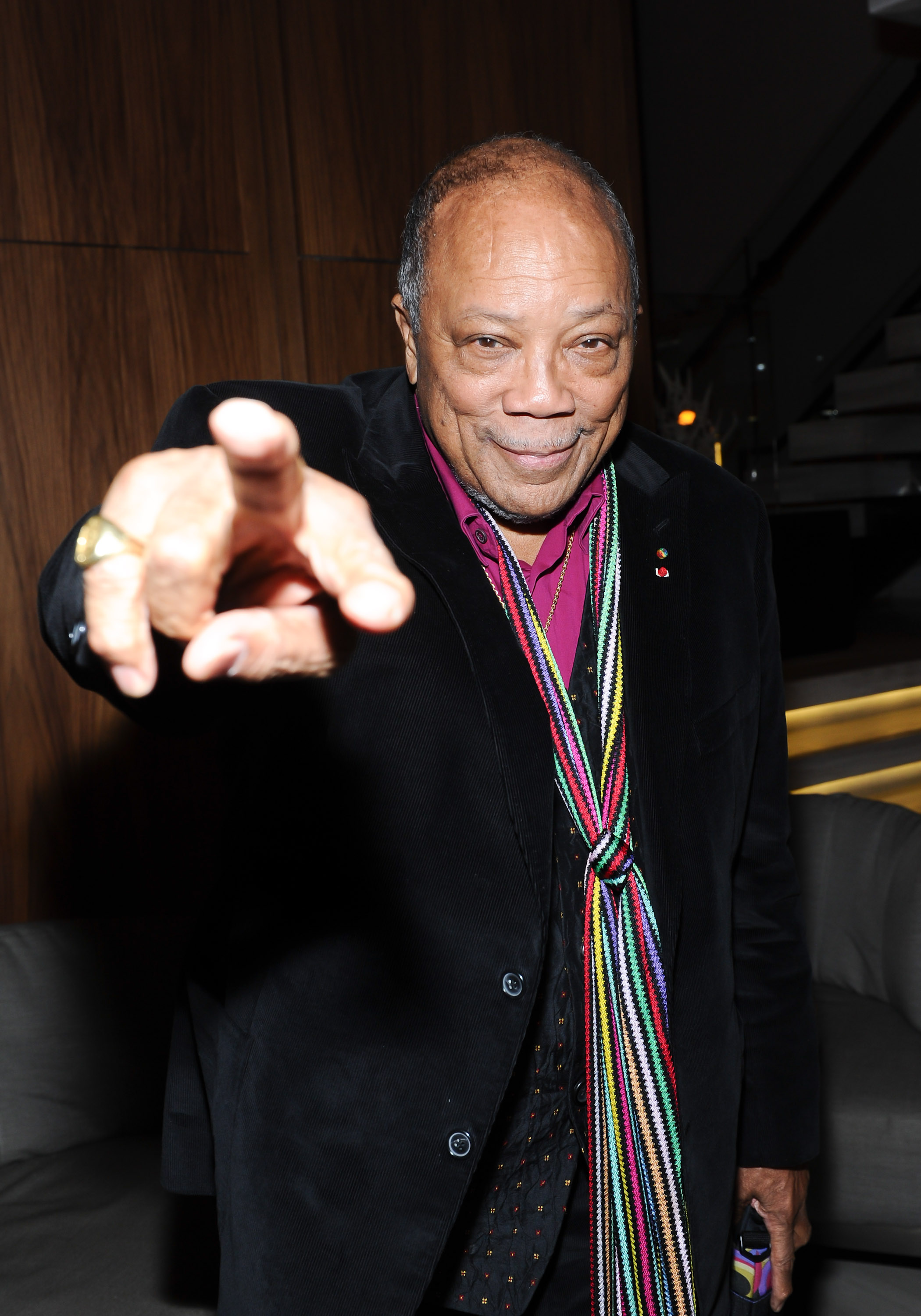 On May 10, 2014, Quincy Jones and Norman Jewison met with the Slaight Family Music Lab creators and residents. Photos by Sam Santos.